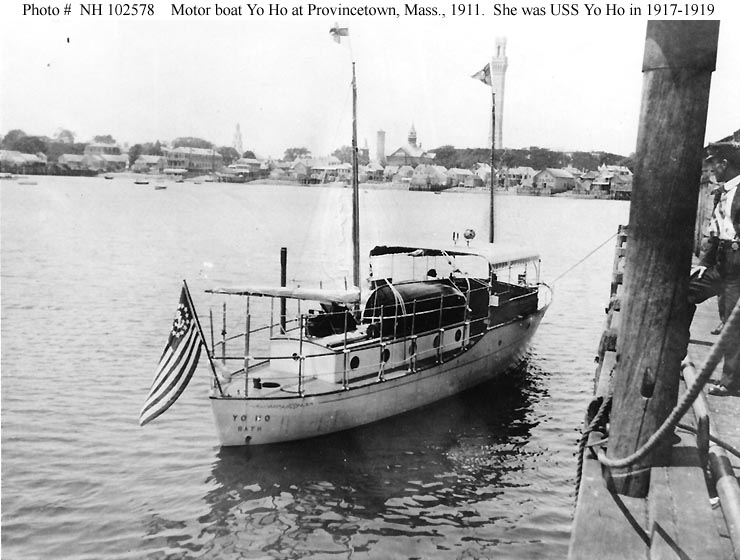 Motorboat Yo Ho at Provincetown, Massachusetts, in 1911, on her way to the New York City-to-Bermuda race, prior to her 1917-1919 U.S. Navy service as [USS Yoho (SP-463)